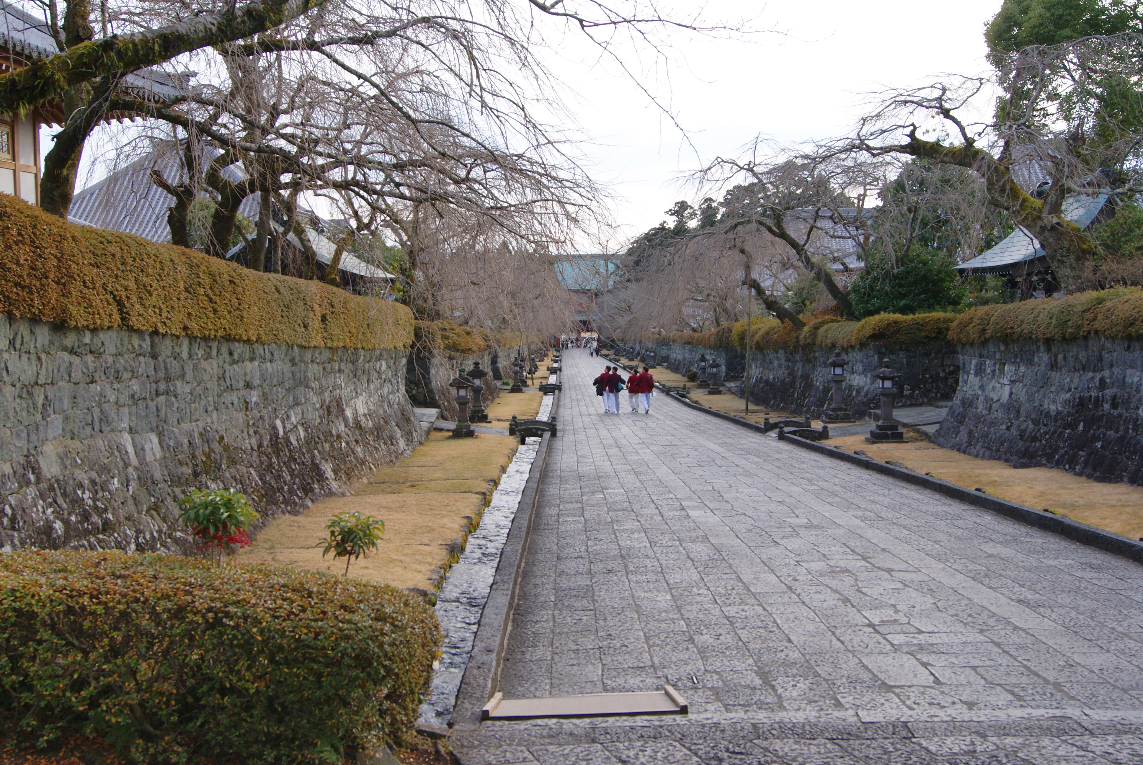 Omote-tacchū of Taiseki-ji.